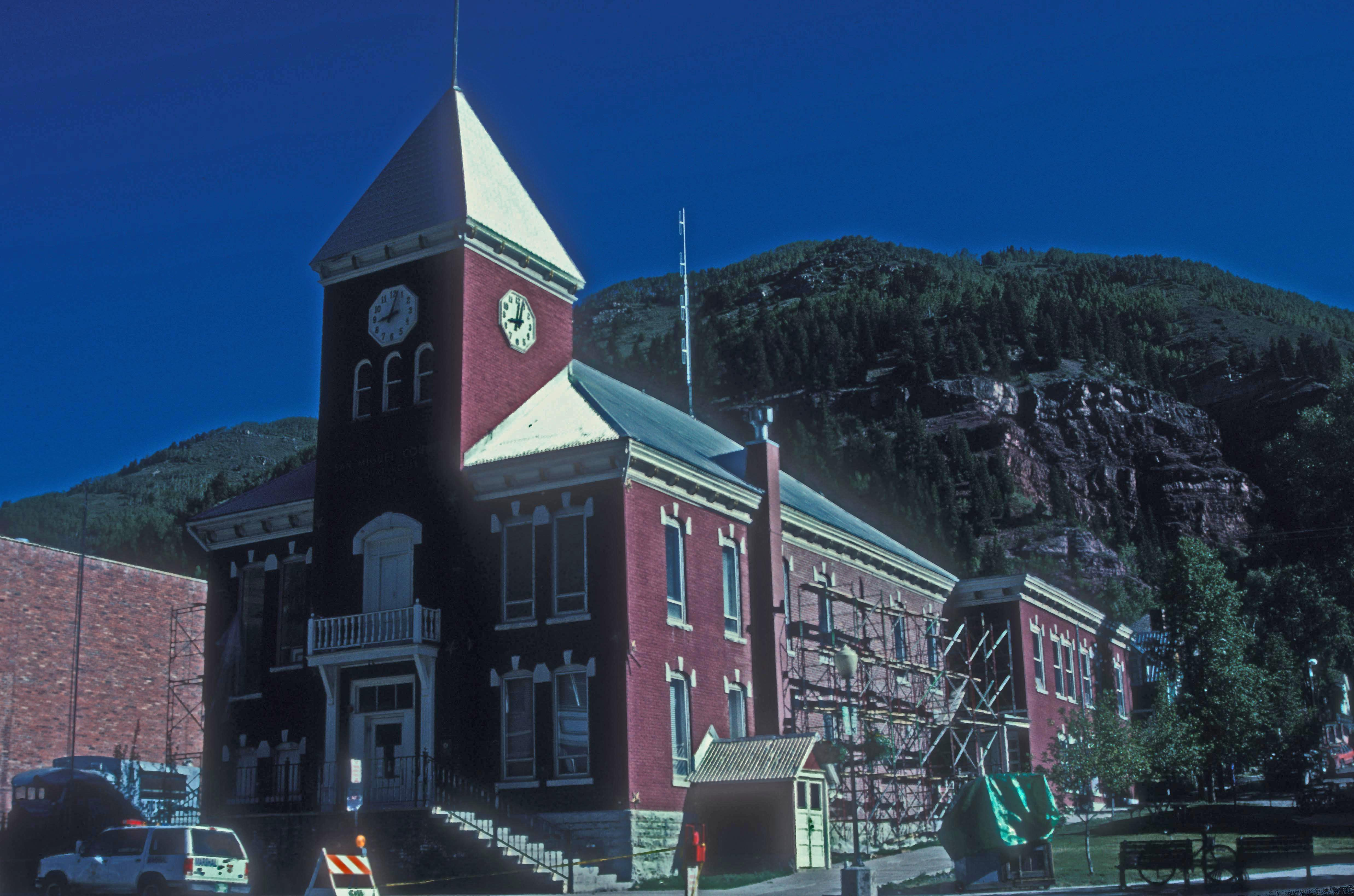 SAN MIGUEL COUNTY COURTHOUSE - 1887; IN TELLURIDE